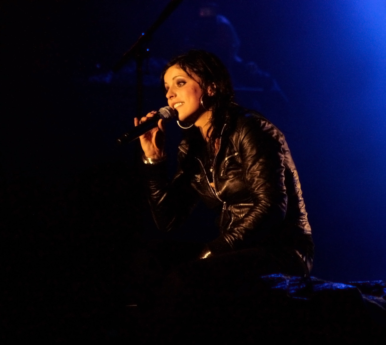 Stefanie Kloß of Silbermond singing the song Das Beste together with the crowd at the Donauinselfest 2009